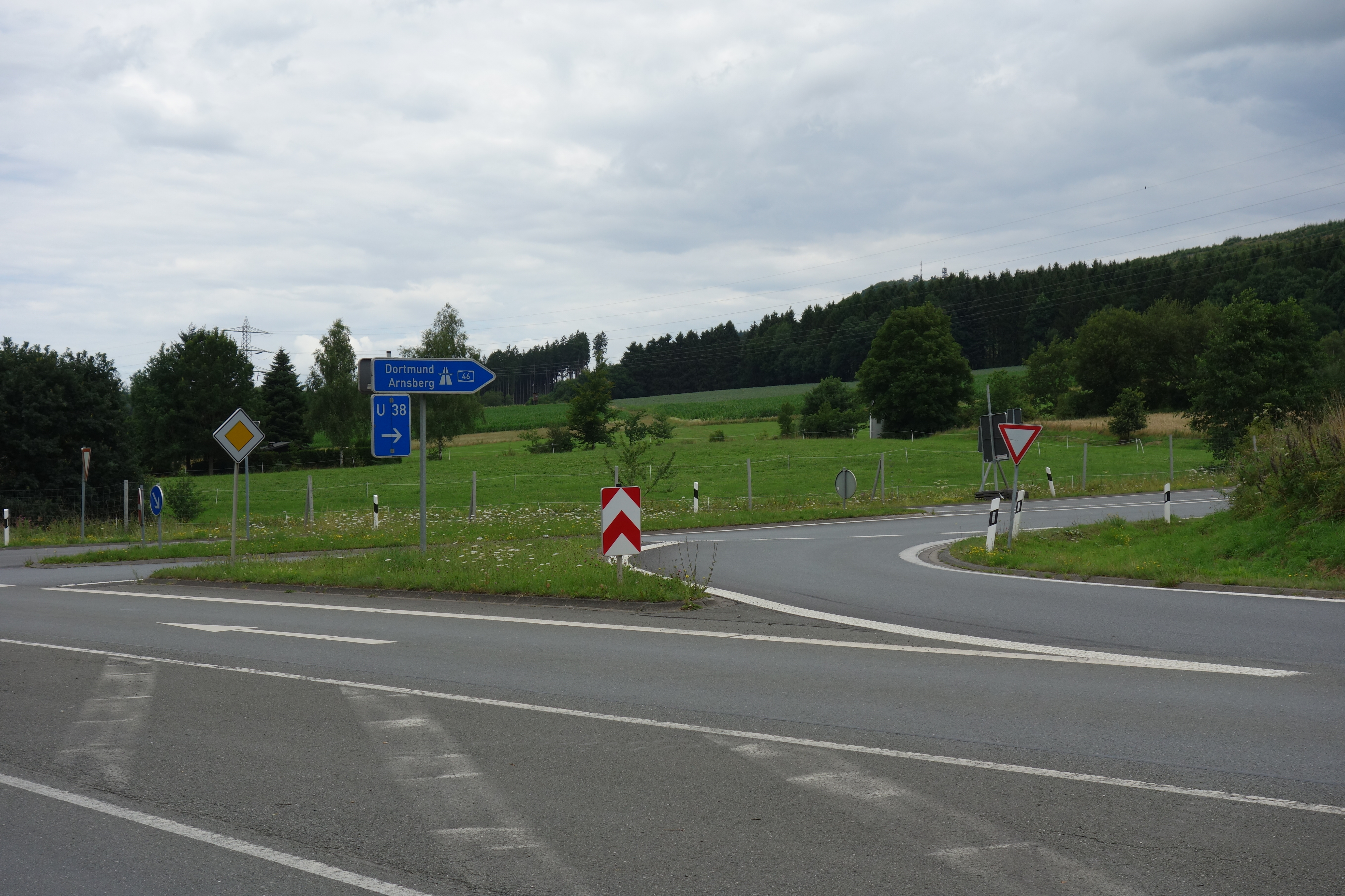 Landschaftsschutzgebiet Hangflächen östlich der Hofanlage Bockum an Autobahnauffahrt Wennemen. Wald hinten gehört zum LSG Meschede.